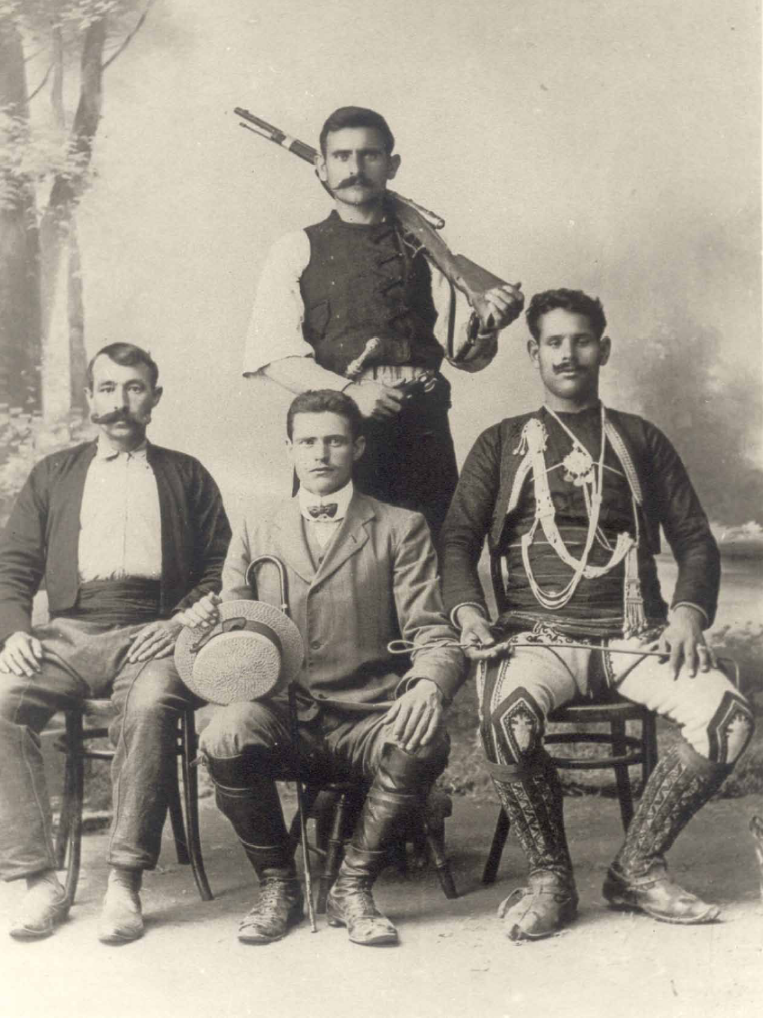 Portrait of greek andart captain Yanis Ramnalis and Lazos Dogiamas